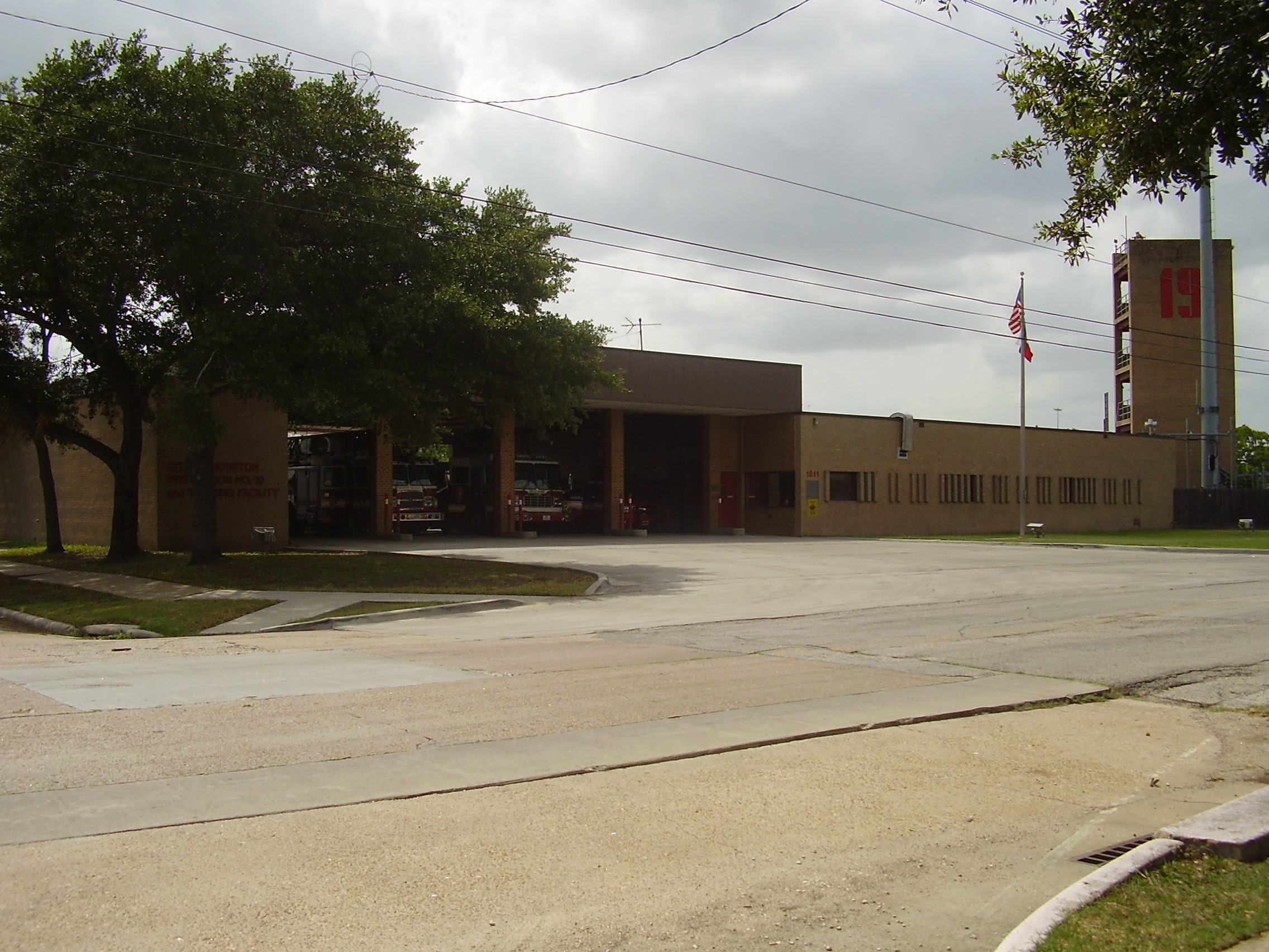 Fire Station No. 19 Fifth Ward and Training Facility